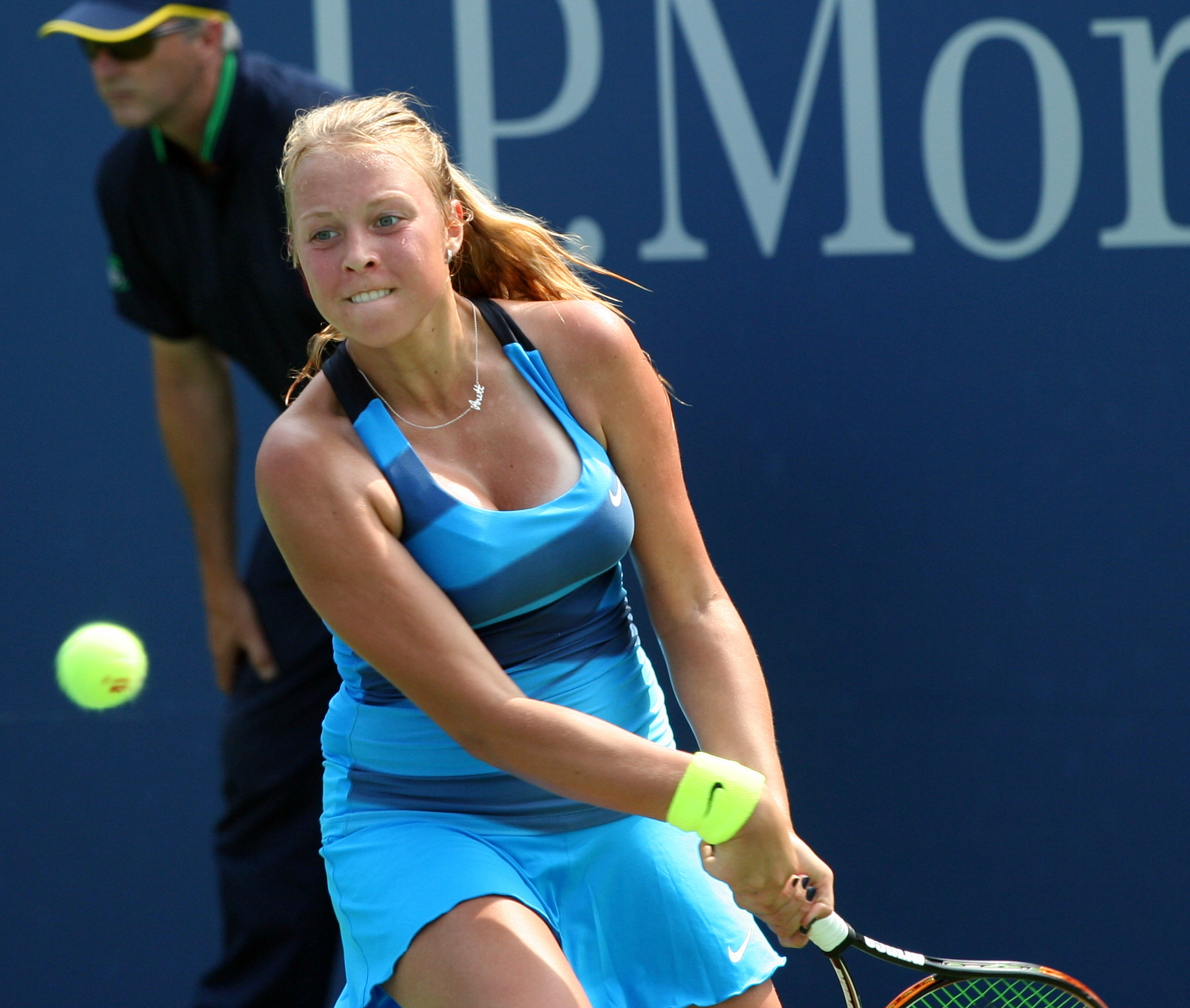 Anett Kontaveit at the 2012 US Open